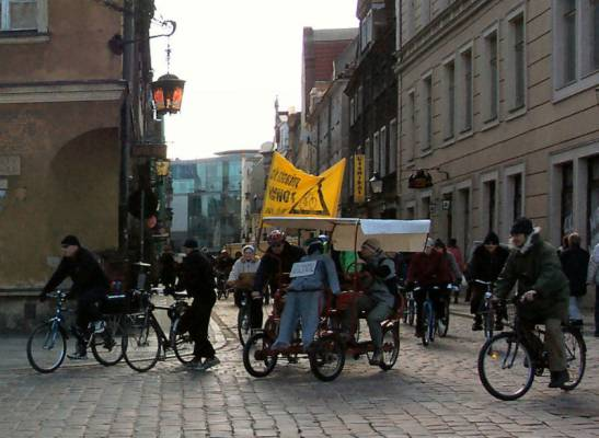 Bicycle welcome spring (2005-03-20 r) - a journey through the streets of Poznan